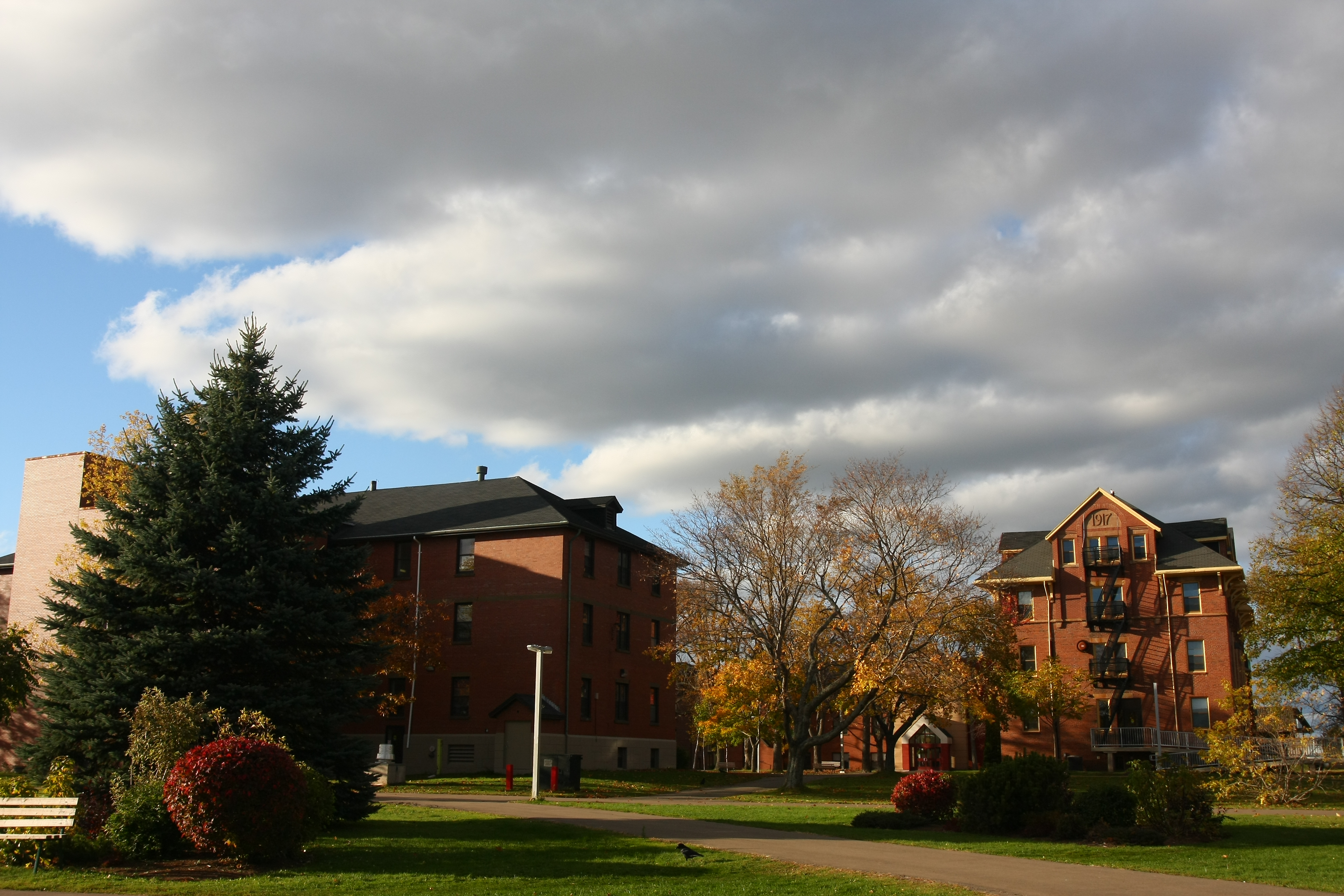 Fall is a nice season here. Unlike Bradtholomew, I'm not looking forward to winter.